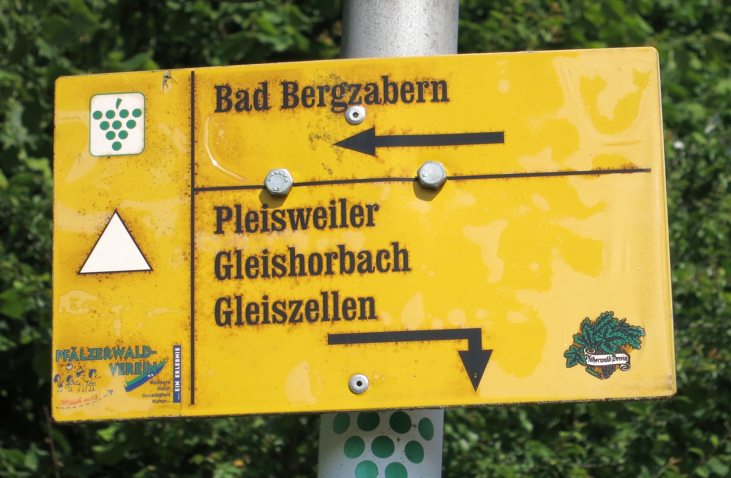 Hiking path sign in Pfaelzerwald